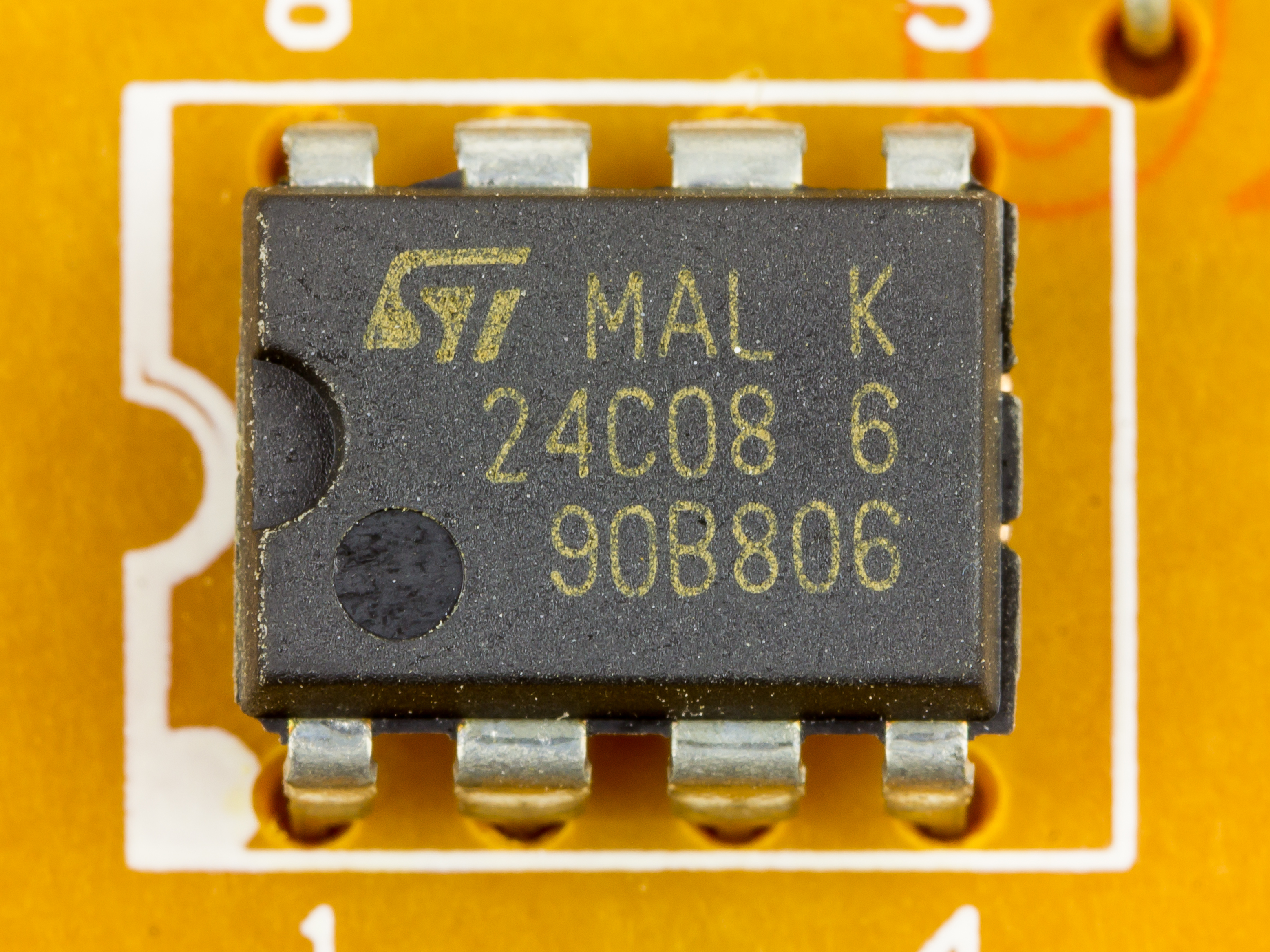 Medion MD8910 - STMicroelectronics 24C08 - 8 Kbit Serial I²C Bus EEPROM with User-Defined Block Write Protection